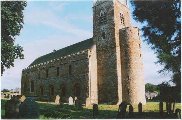 All Saints' parish church, Brixworth, Northamptonshire, seen from the northwest